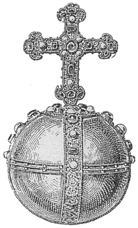 Globus cruciger (Imperial Orb) of the Holy Roman Empire of German Nation